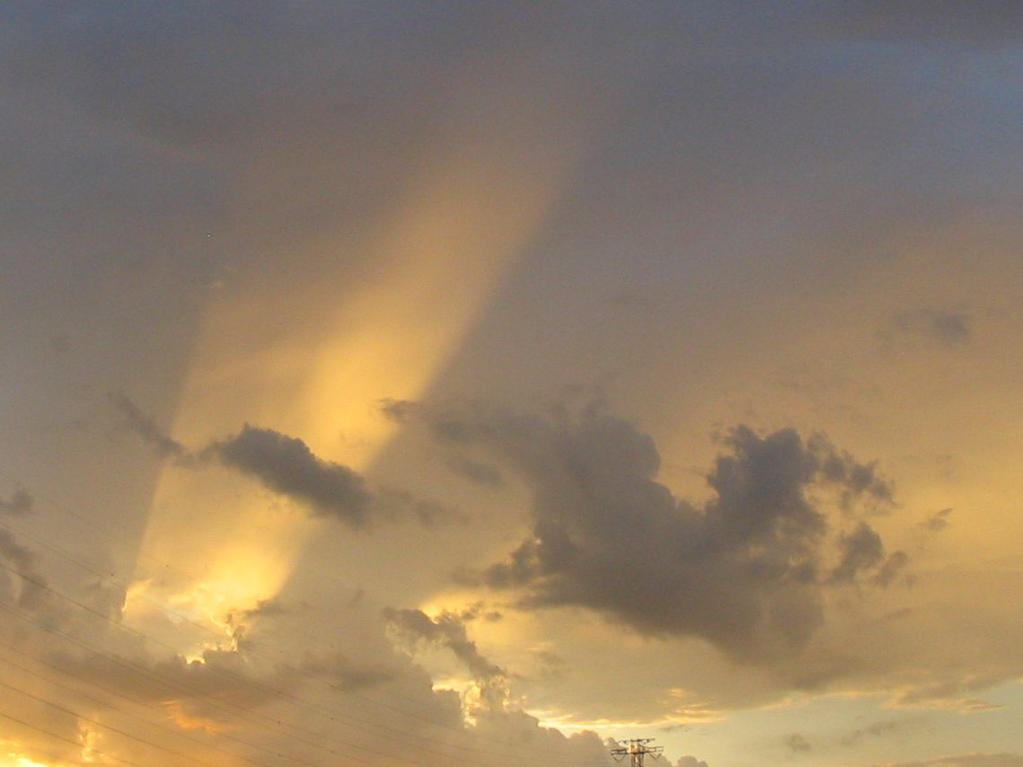 Tenshi-no-hashigo, one of Tyndall effect's reverse picture.